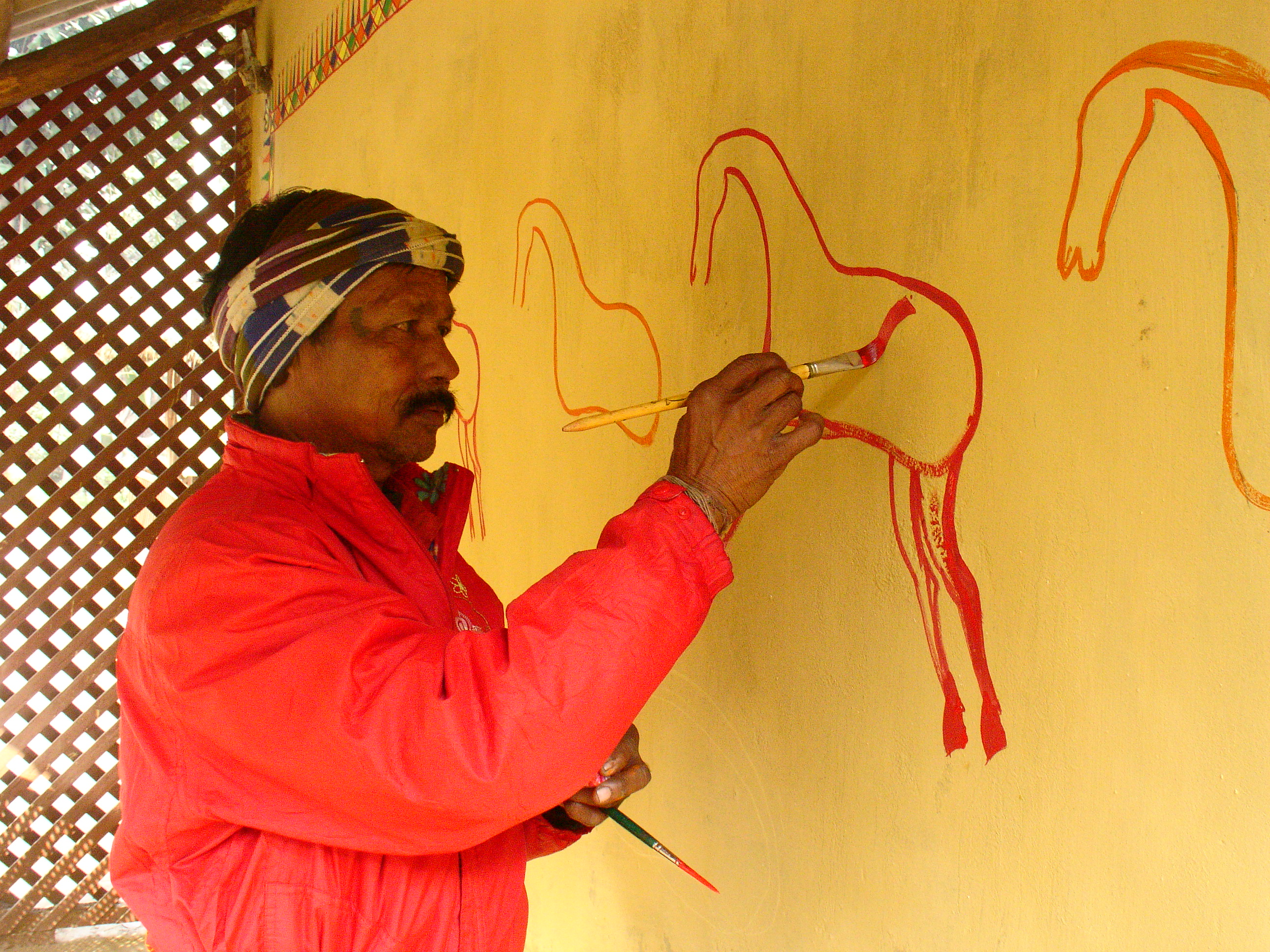 Pithora painter at work